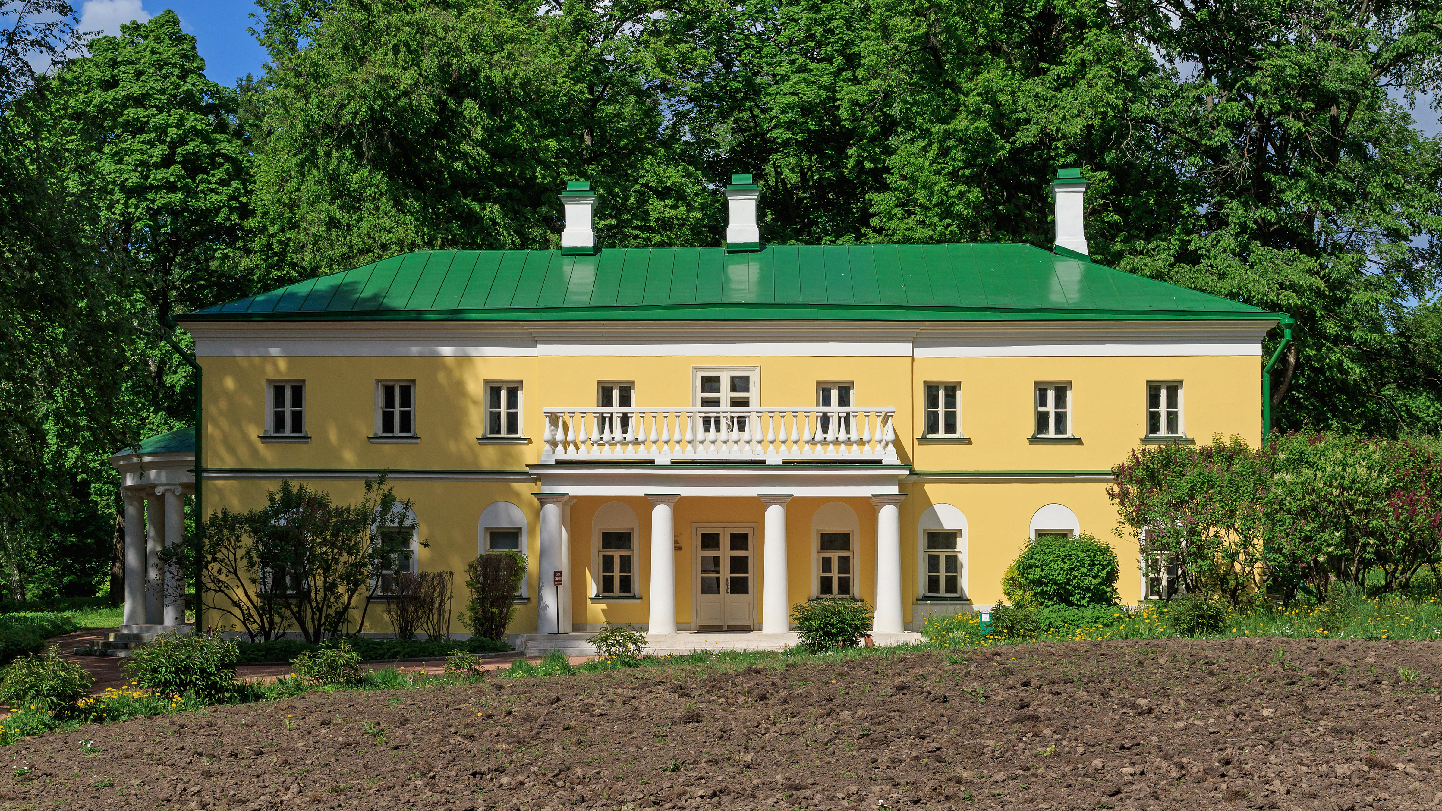 Former Gorki Estate (today Lenin Museum) in Gorki Leninskiye, near Domodedovo, Moscow Oblast (Russia).